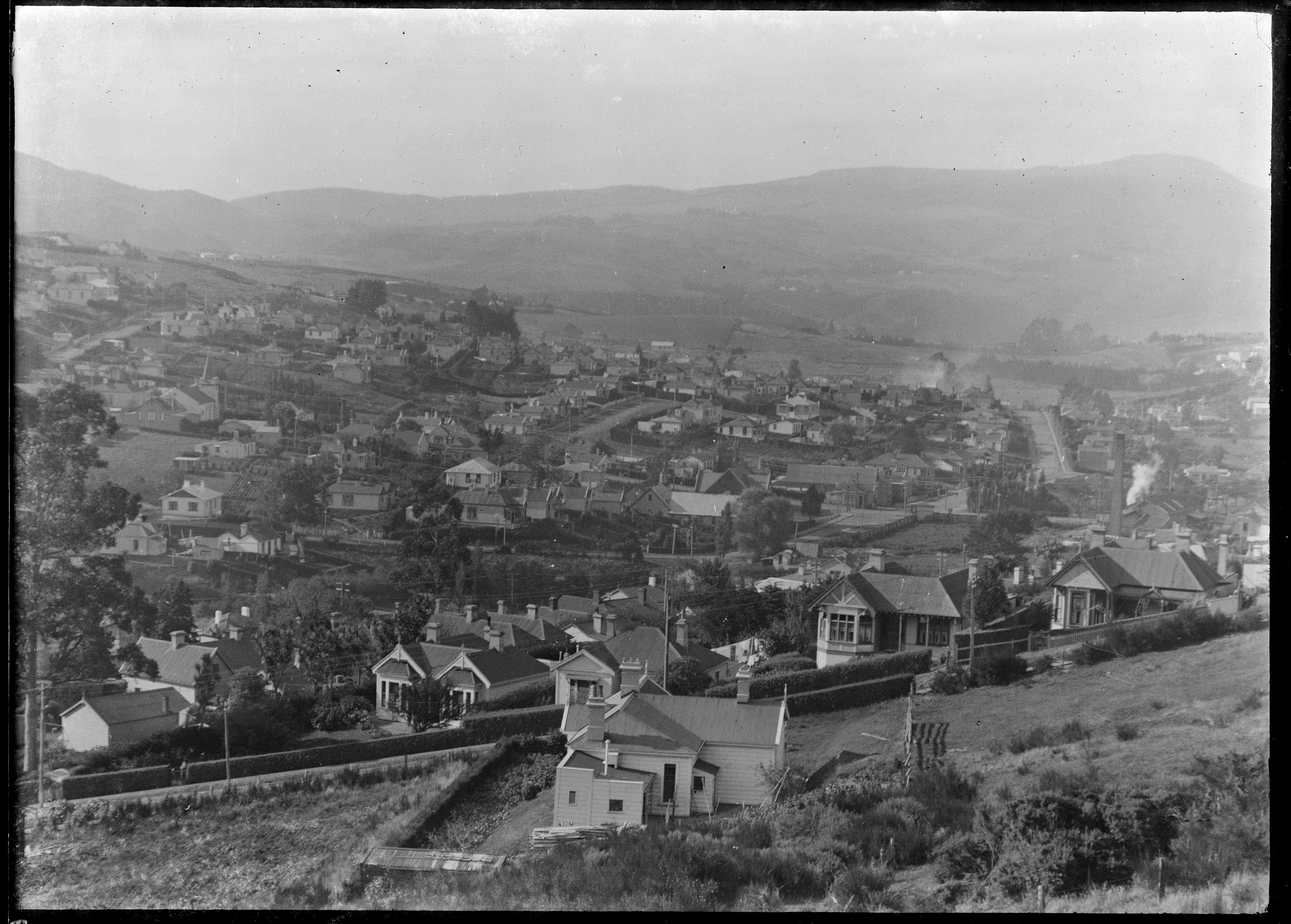 View of the Kaikorai Valley, a suburb of Dunedin. The hill on the extreme right of the image is Mount Cargill (Kaputataumahaka). Photographed by Albert Percy Godber in 1926.